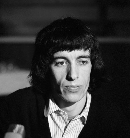 Photograph of Bill Wyman of The Rolling Stones during the band’s visit to Finland.